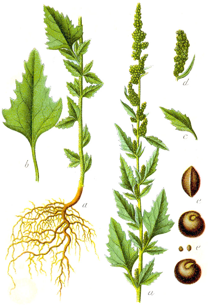 Chenopodium album L. Original Caption Acker-Melde, Chenopodium album